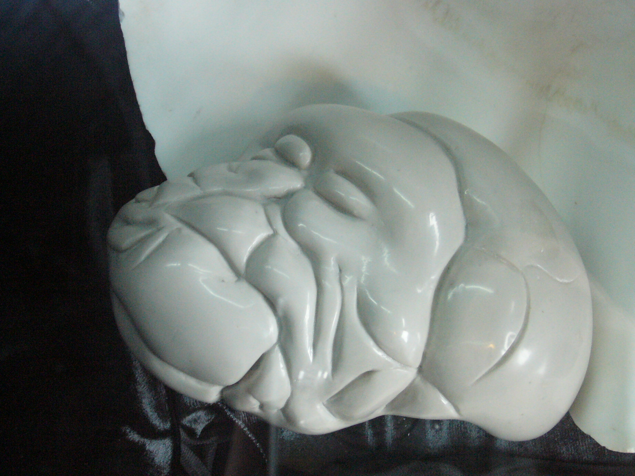 Allah's Pearl copy in Sala Humboldt of Aquarium Finisterrae (House of the Fishes), in Corunna, Galicia, Spain.